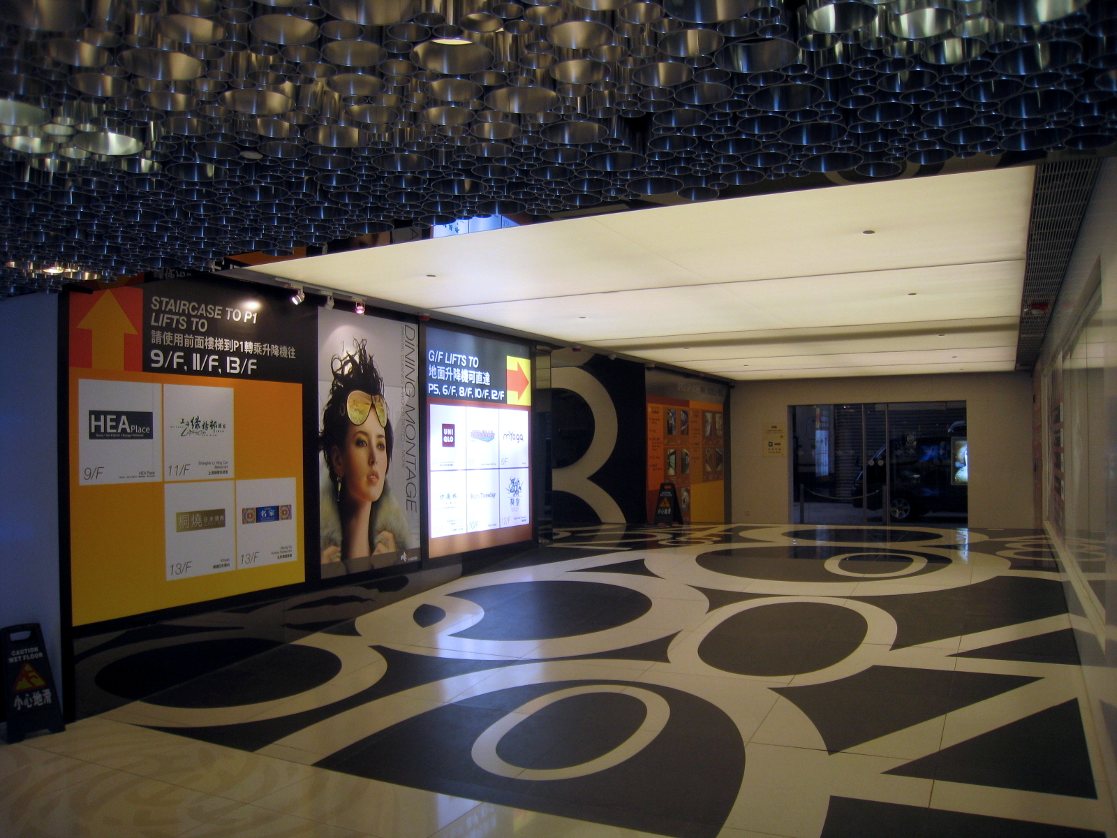 wtc more Enterance 地下顧客電梯大堂入口